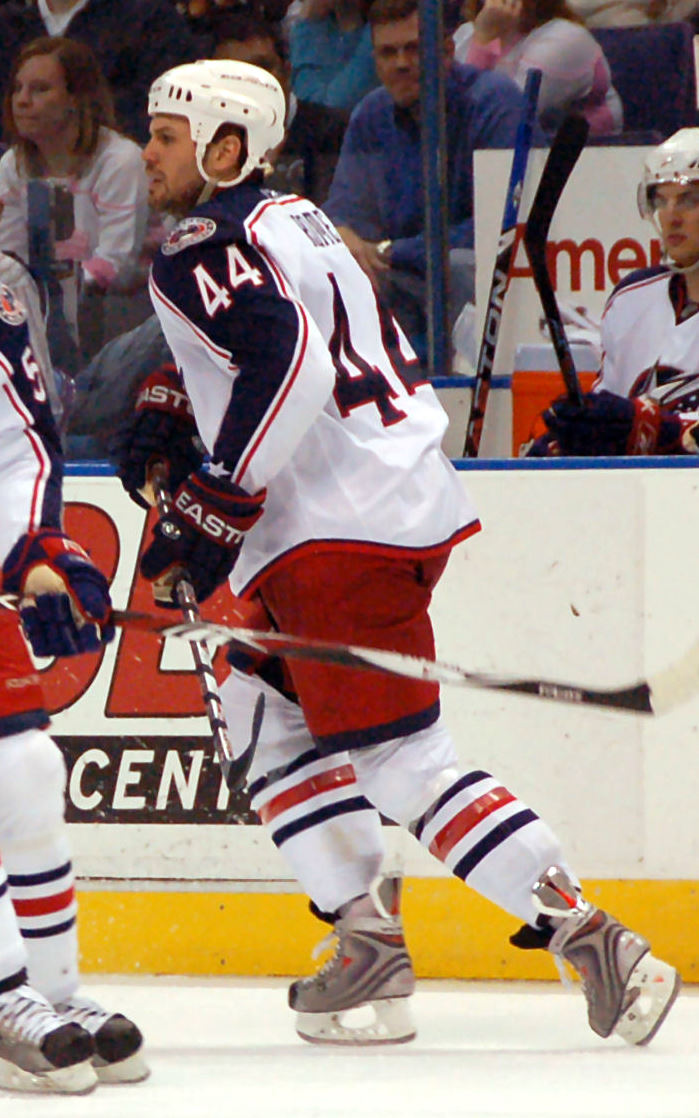 Columbus Blue Jackets defenceman Aaron Rome during a game against the St. Louis Blues.